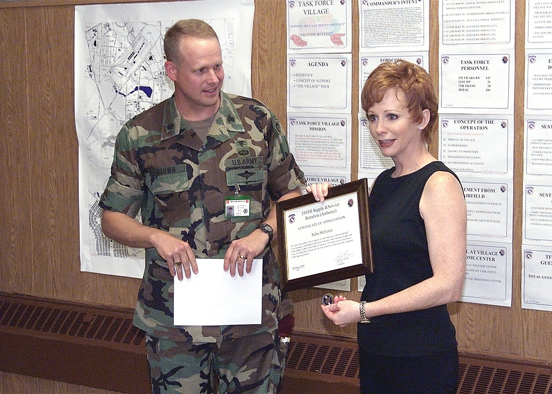 Reba McEntire holding up a certificate of appreciation that was presented to her by US Army Lieutenant Colonel Jospeh Brown, Joint Task Force (JTF) Village Commander, in June 1999.